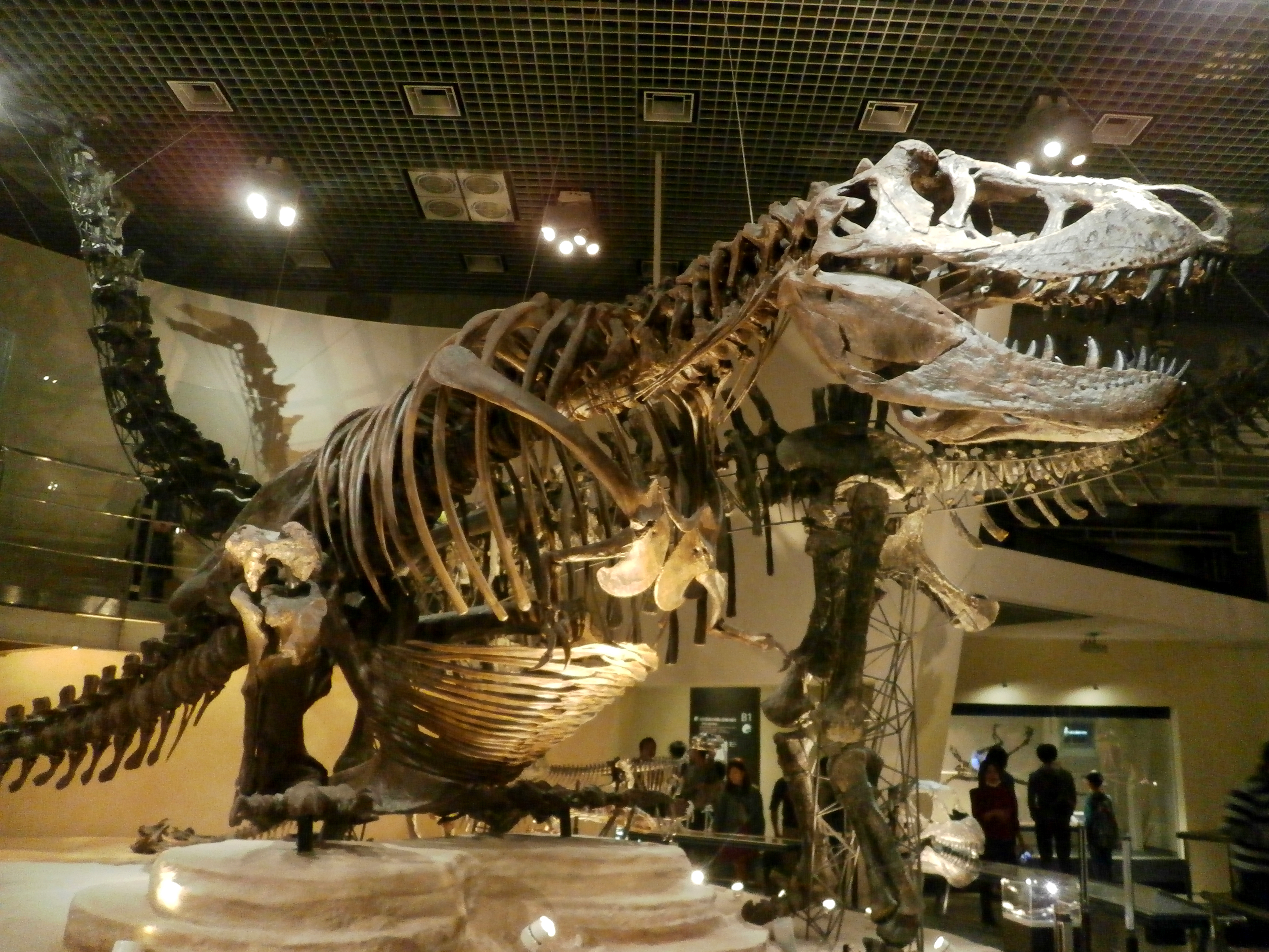 Tyrannosaurus (Tyrannosaurus rex) named "Bucky". National Museum of Nature and Science, Tokyo, Japan.